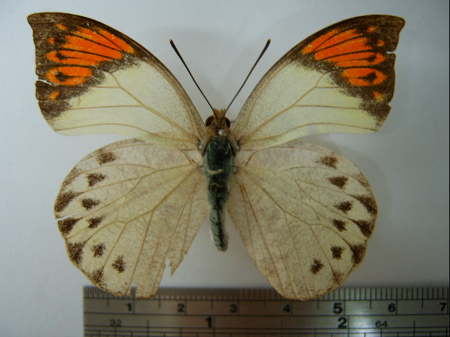 Kerry took this picture at his house on 16 July 2005 Scientific name: Hebomoia glaucippe formosana ♀ Date of collection: 29 III 1997 Place of collection: Taipei city, Taiwan